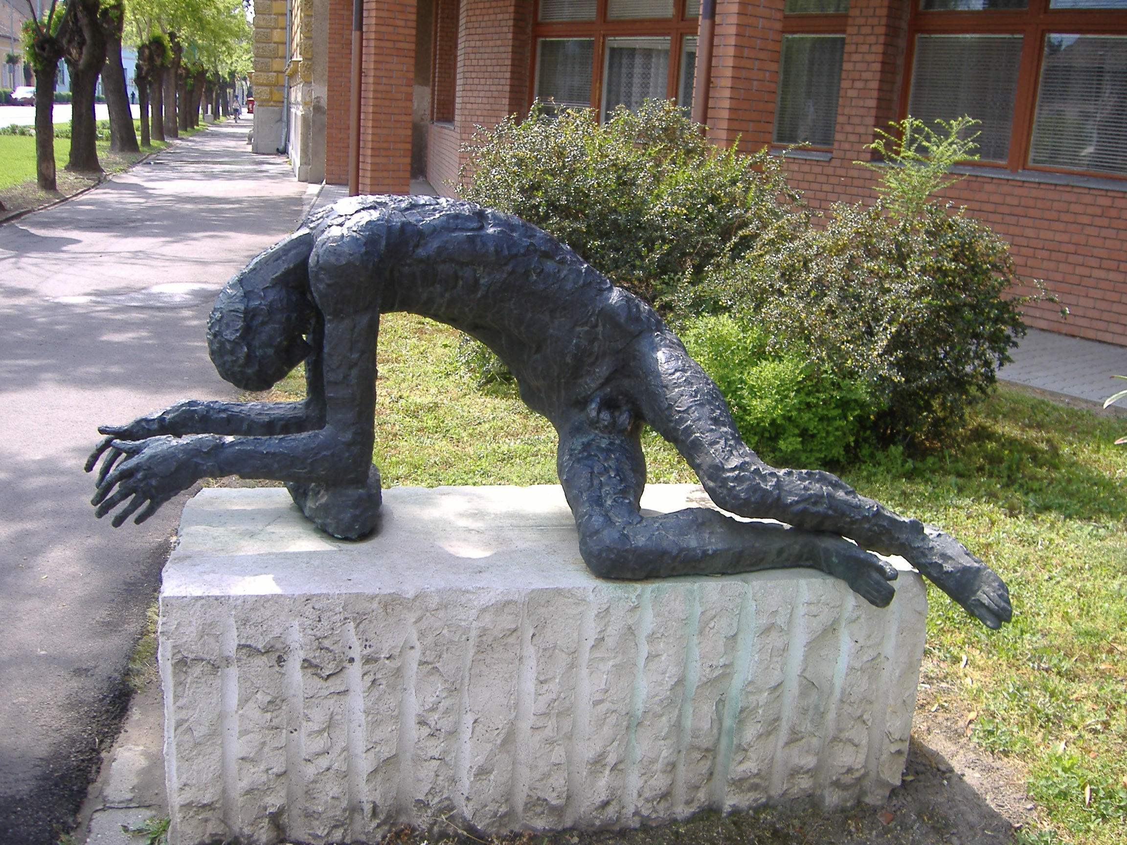 Statue of the "Tired Man" (Megfáradt ember in Hungarian), referring to the poem of Attila József, famous Hungarian poet. The statue is the work of József Somogyi, and is located in Makó, Hungary near the local museum.